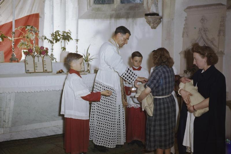 Baptising Babies Born in Benouville Maternity Home in France, 27 July 1944 The Cure of Blainville (Calvados), Abbe Saint Jean baptising a newly born baby in the thirteenth century chapel of Benouville Maternity Home. The baby is held by another mother because its own was still unable to leave her bed. At the time of the ceremony the Home was in the front line and the chapel windows were rattling as a result of the nearby artillery duel between German and Allied forces.